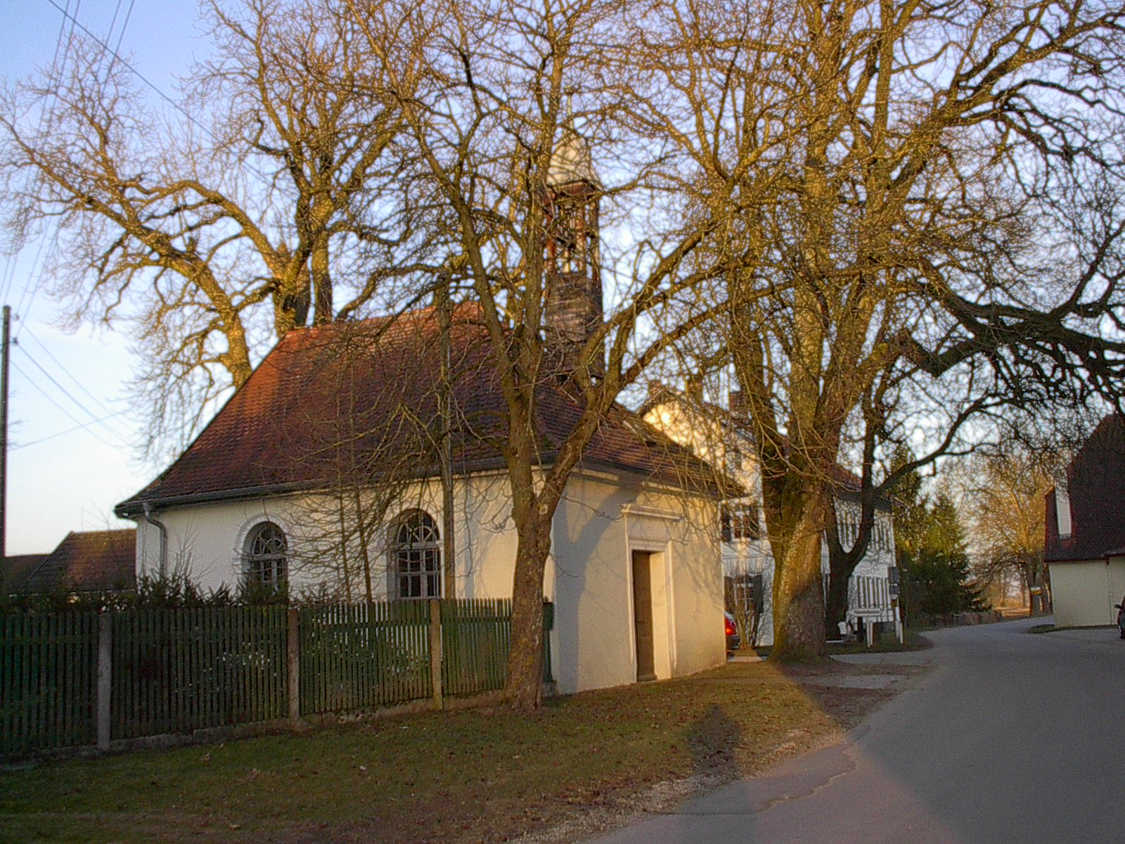 Kapelle Auf dem Gut Rohrenfeld "Zum heiligen Abendmahl"